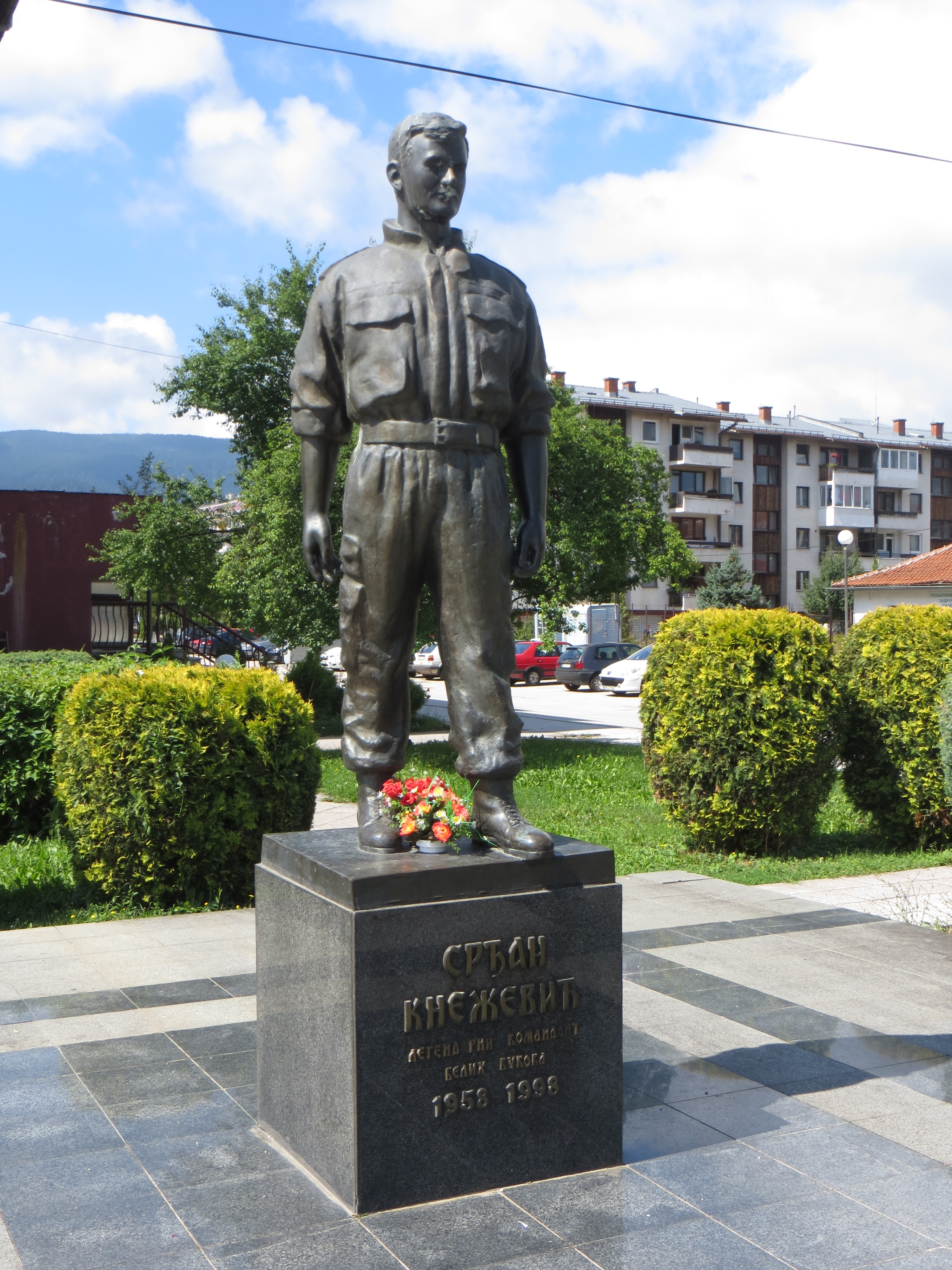 Monument to Srdjan Knezevic, Pale